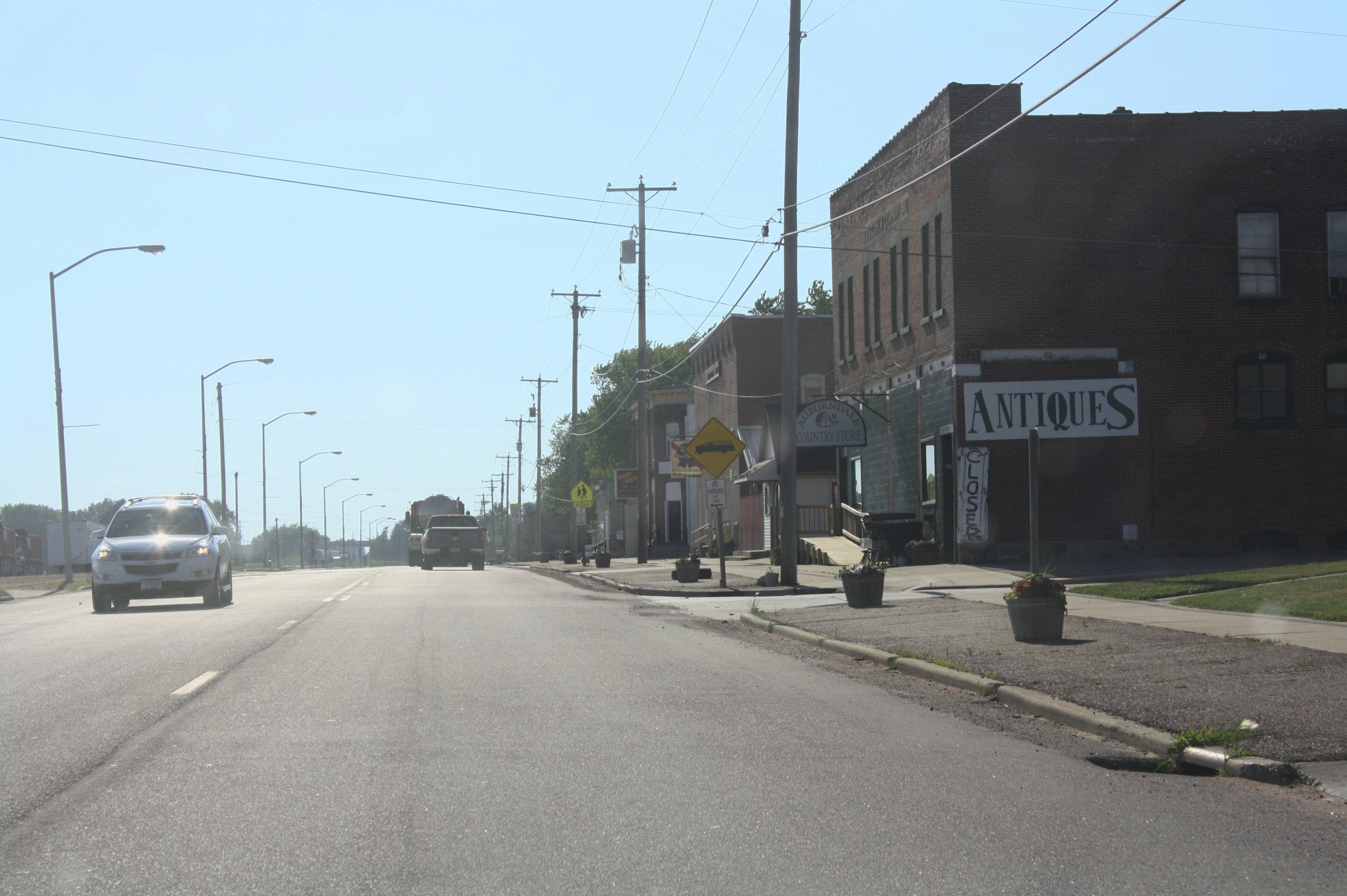 Looking west in Auburndale, Wisconsin on U.S. Route 10.